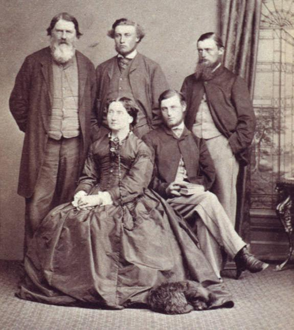 Meredith family